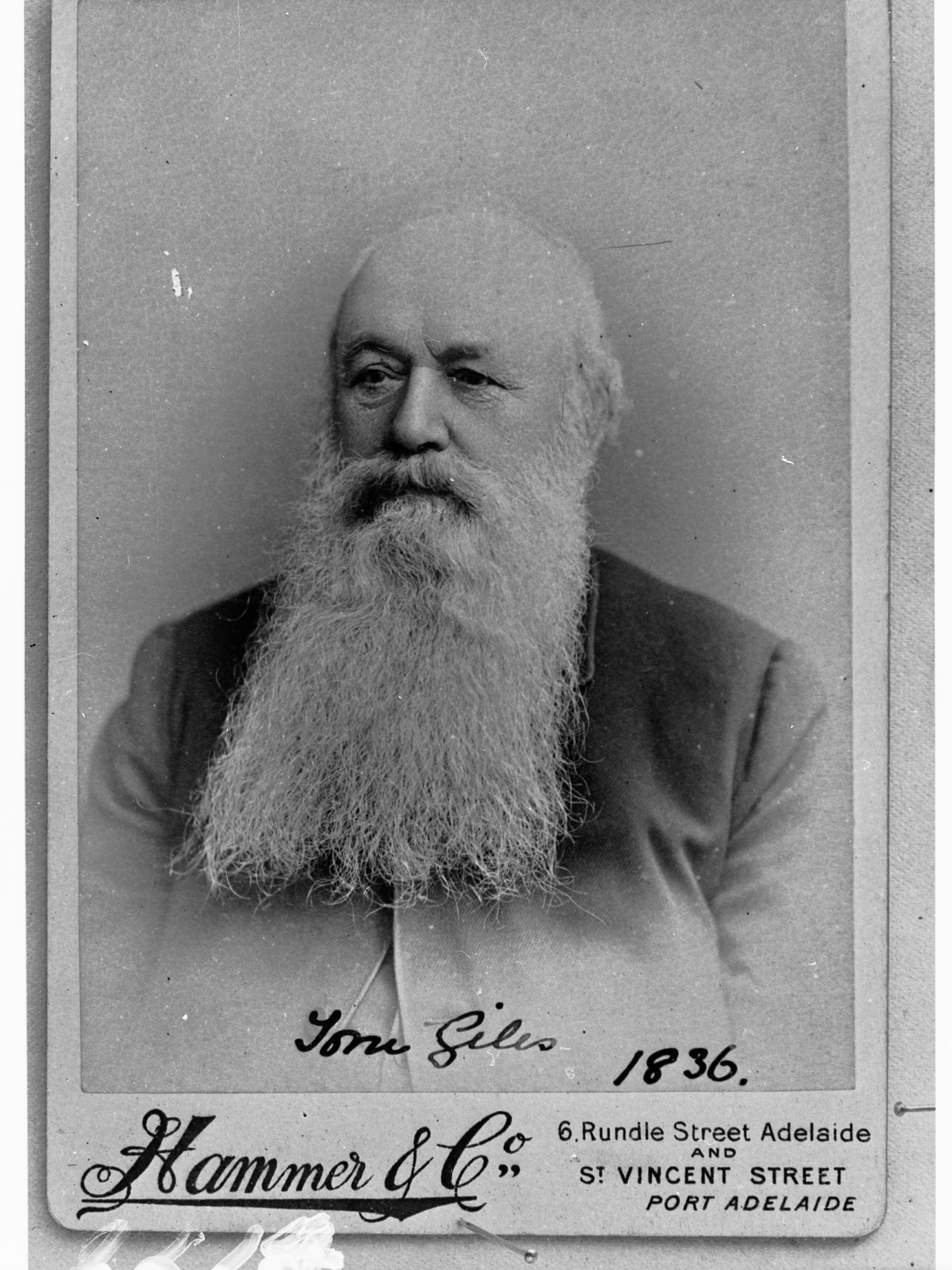 Microfiche states date was 1836. However 1836 date is impossible as Hammer & Co. was established in 1882. (G Brooks) See "The Mechanical Eye in Australia", p172 and "Biographical Index of South Australians", Vol. II, p.569. (G Brooks) - The box 12 x 10 (written on microfiche) probably comes from the size of the negatives (in inches). (G Brooks)